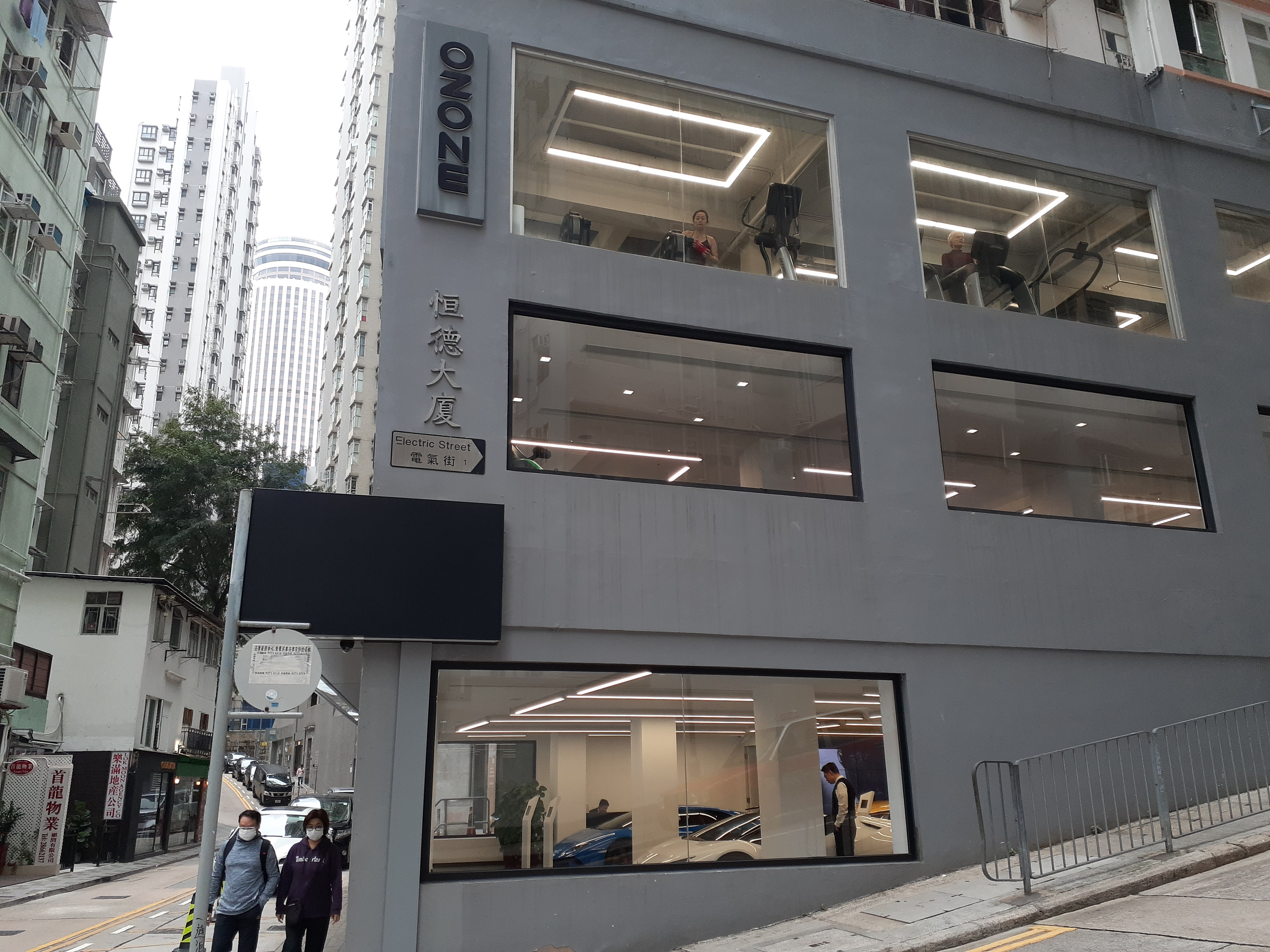 HK 灣仔 Wan Chai 星街 Star Street in March 2020